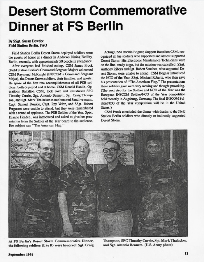 Intelligence & Security Command magazine INSCOM Journal September 1991 Pg 11. Dinner at Tuefelsberg Mess hall honoring Field Station Berlin FSB Soldiers returning from Persian Gulf. Sargent Bennett, previously the Berlin Brigade Terrorism Analyst, served as Order of Battle Analyst for FSB. He volunteered for and was deployed during Desert Shield with elements of the Berlin BDE's 766th Military Intelligence Detachments Imagery Analysts (96D). Weeks before Desert Storm, Army Central Command ARCENT Forward HQ was relocated from Riyadh to Eskan Village, 60 kilometres South. Bennett became Night Shift NCOIC of Classified Courier Team CCT. The CCT mission was to deliver all classified documents & support 40th Engineer Topographic Battalion of the 82nd Airborne in the creation and distribution of maps developed in part by 766MID. All CANUKUS National Level Intelligence Assets and IMINT used by Coalition Forces was distributed & dissiminated by this team. Sargent Bennett personally delivered Intelligence Briefs & Reports to General Schwartkopf and his staff located within the Saudi Oil Ministry. Sargent Thompson, Curry, & Thalacker, Signals Analysts and Polish, Russian Linguists (98C-G), arrived after the Desert Storm began, and were attached to elements of the 513 MI Battalion, Ft. Monmouth.